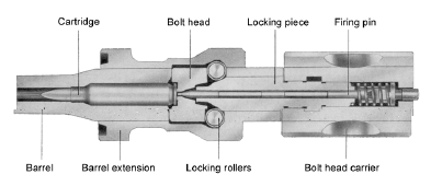 Cutaway view of the G3 style rifle's Roller delayed Blowback system.